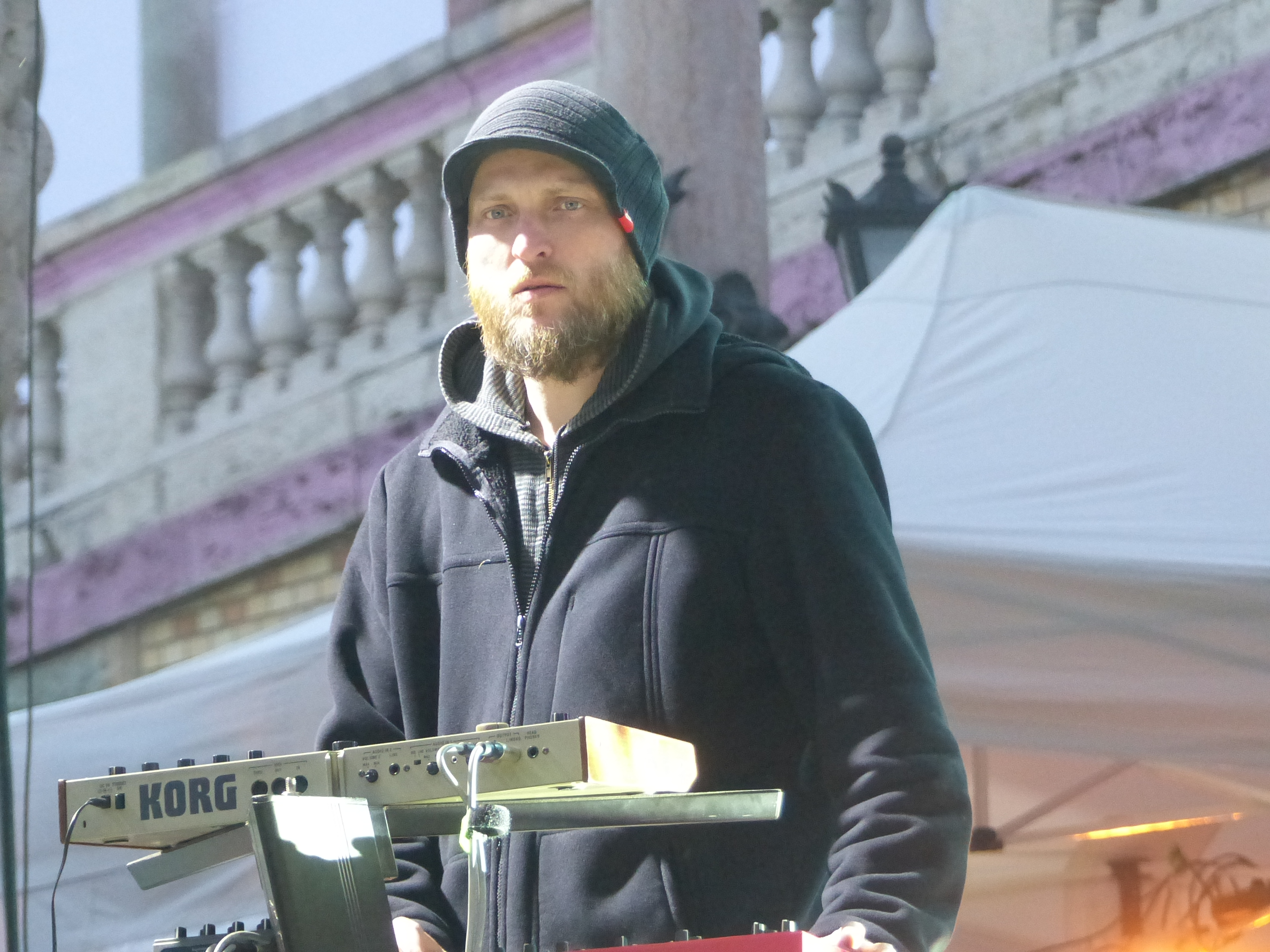 Lajkó Félix and Operentzia (band).Várkert Bazár, Budapest, Central Europe.